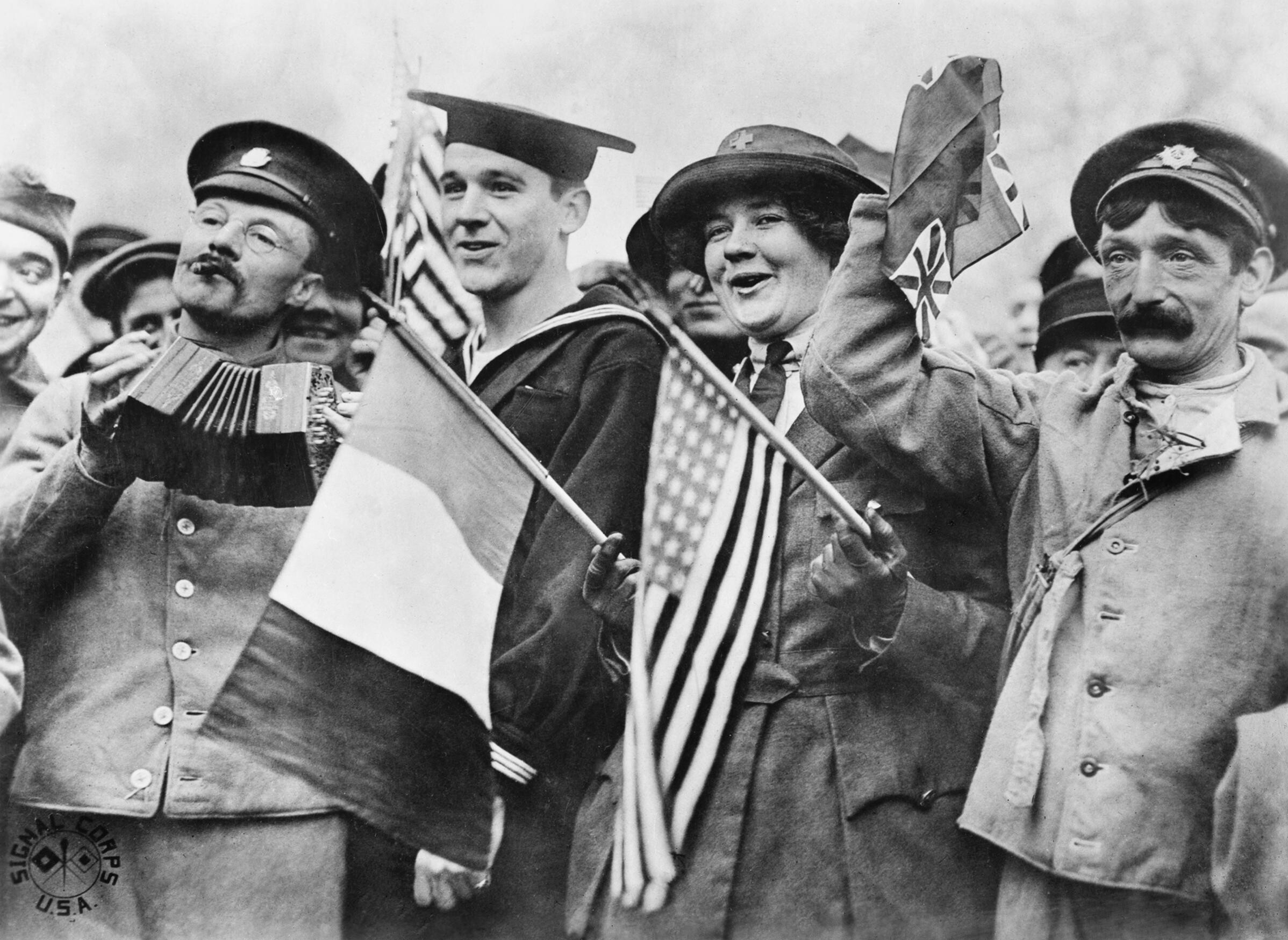 Armistice Day Celebrations, Paris, 11 November 1918 An American sailor, an American Red Cross Nurse and two British soldiers celebrating the signing of the Armistice, near the Paris Gate at Vincennes, Paris.